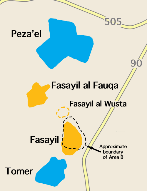 Palestinian village Fasayil in the West Bank with nearby Israeli settlements